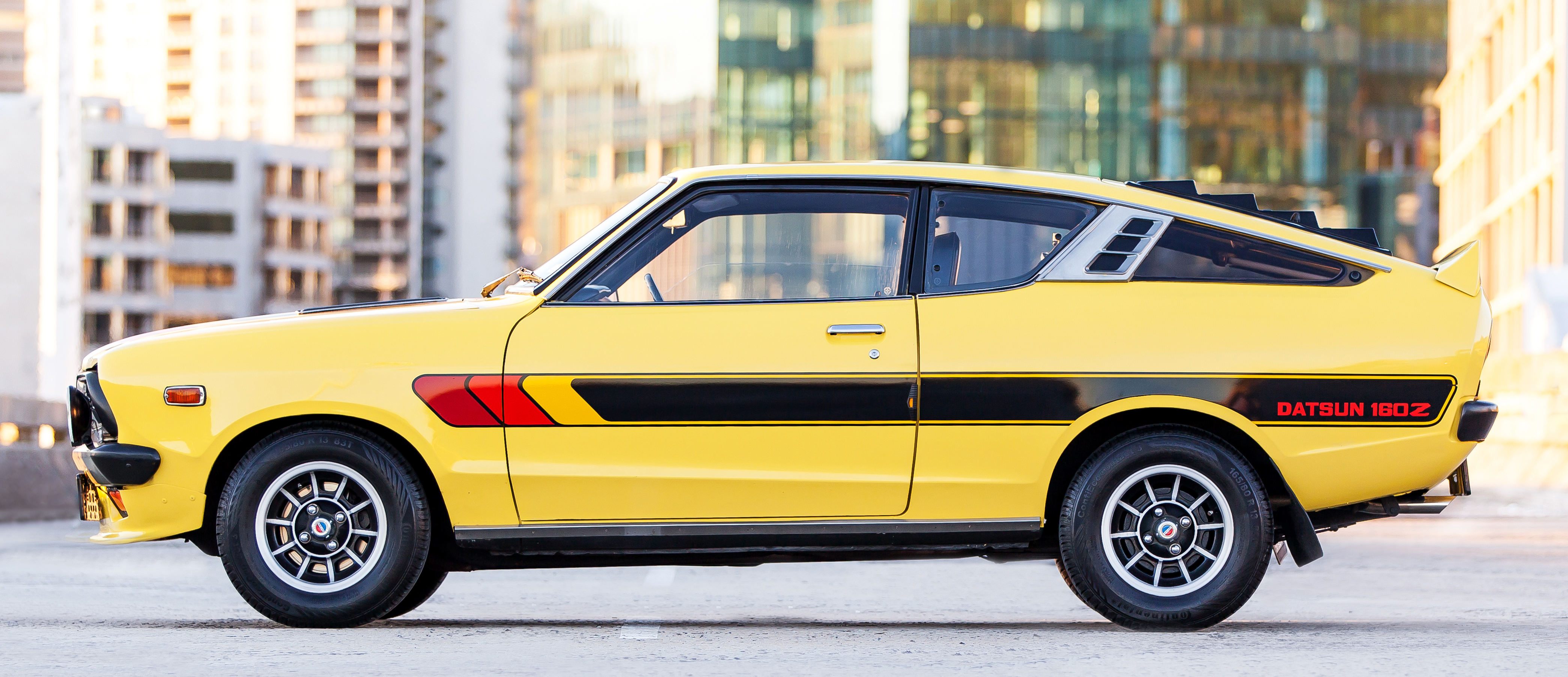 Canary yellow Nissan-Datsun (B210) 160Z Sports Coupe, South African. Side lateral decals. Courtesy of Lee-Ann Vigus - &